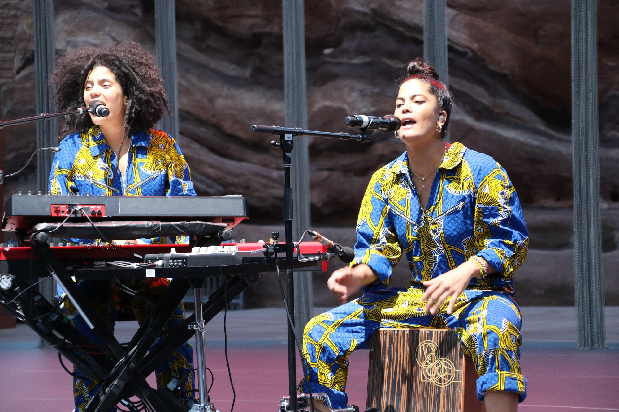 Ibeyi performing in 2018